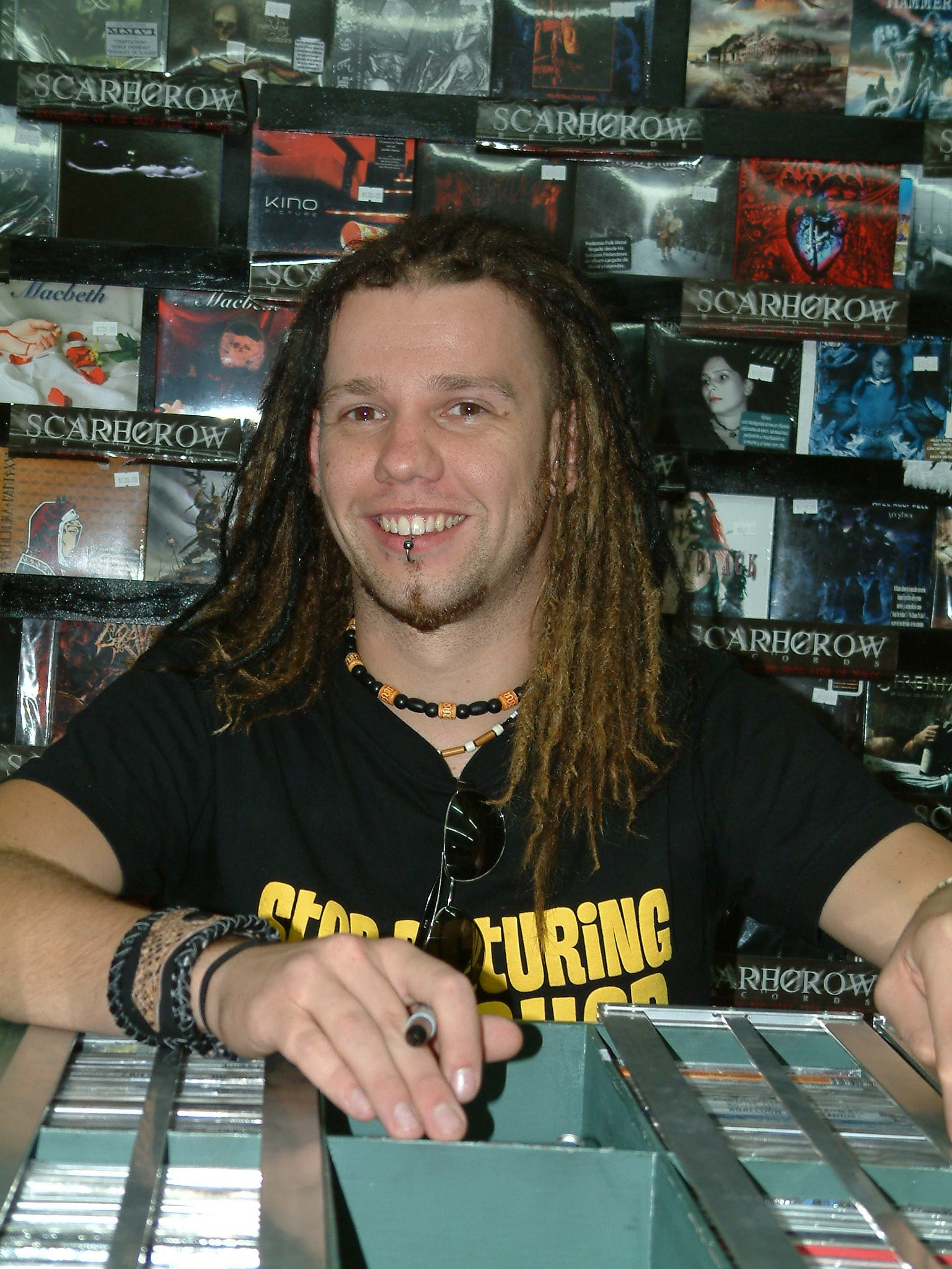 Johan van Stratum during a signature event in 2006.